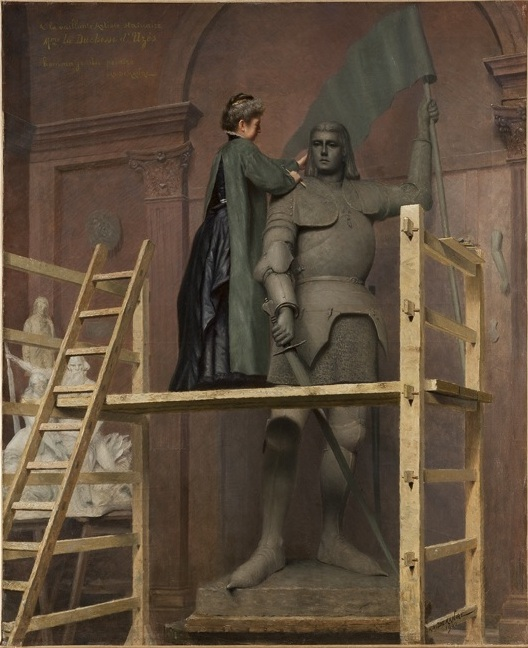 Painting of Duchesse Anne D’Uzes working on a sculpture of Jeanne D’Arc